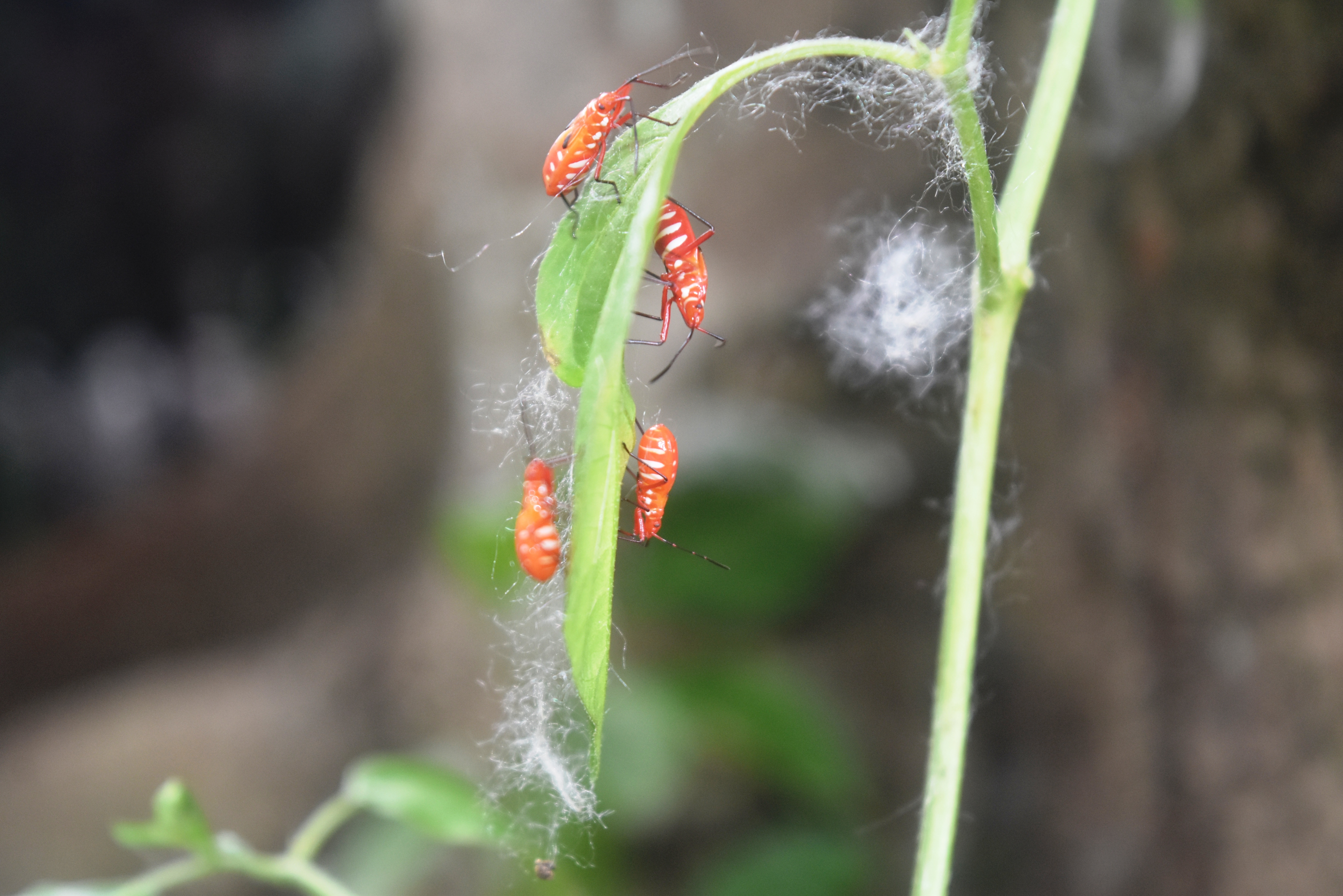 Dysdercus nymphs (Pyrrhocoridae)